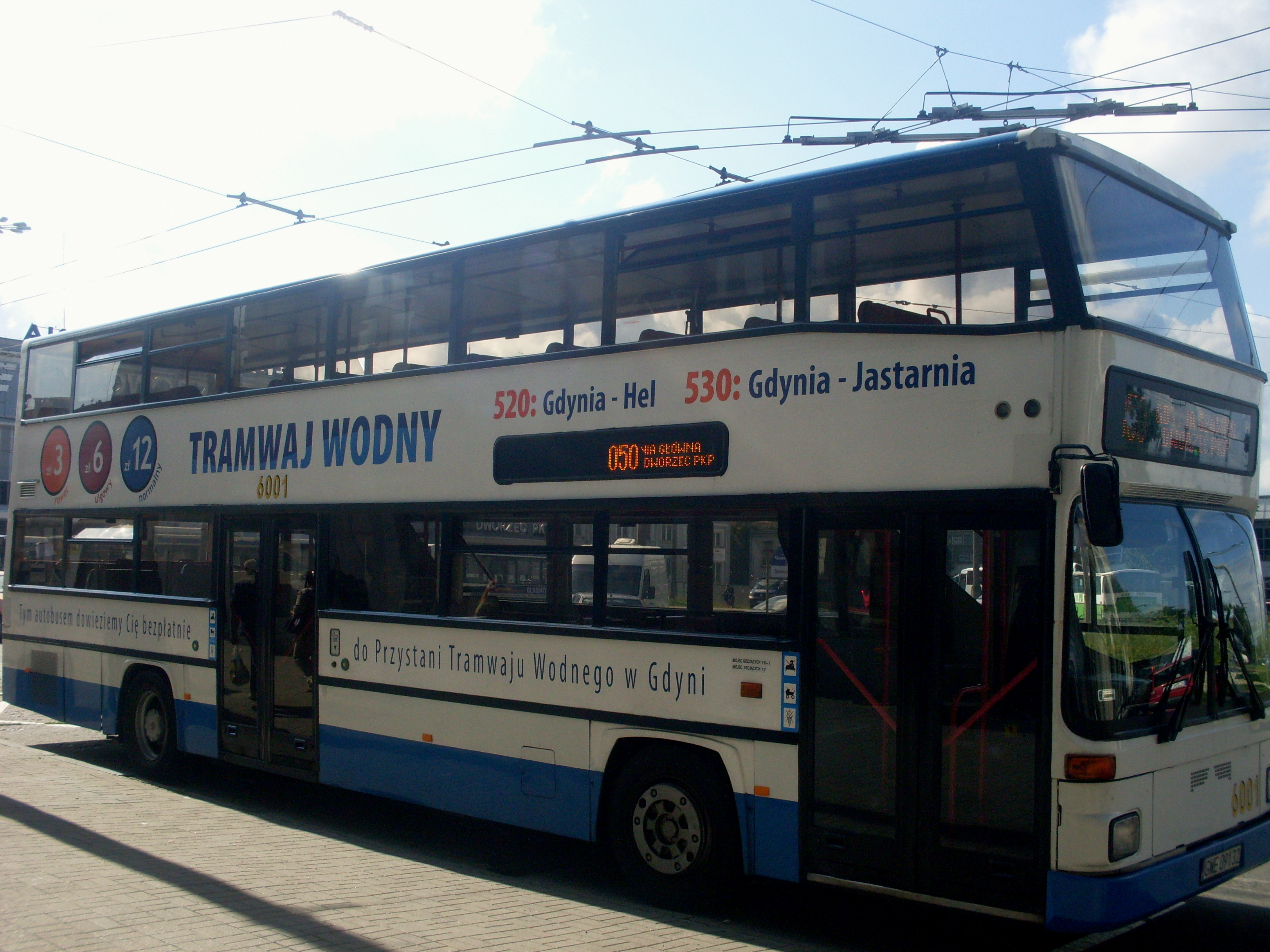 Free of charge for passengers double-decker bus, taking people from the ferry tram to the Gdynia Główna. Only during summer. MAN SD 202 (#6001), built 1990, PKS Wejherowo operator.